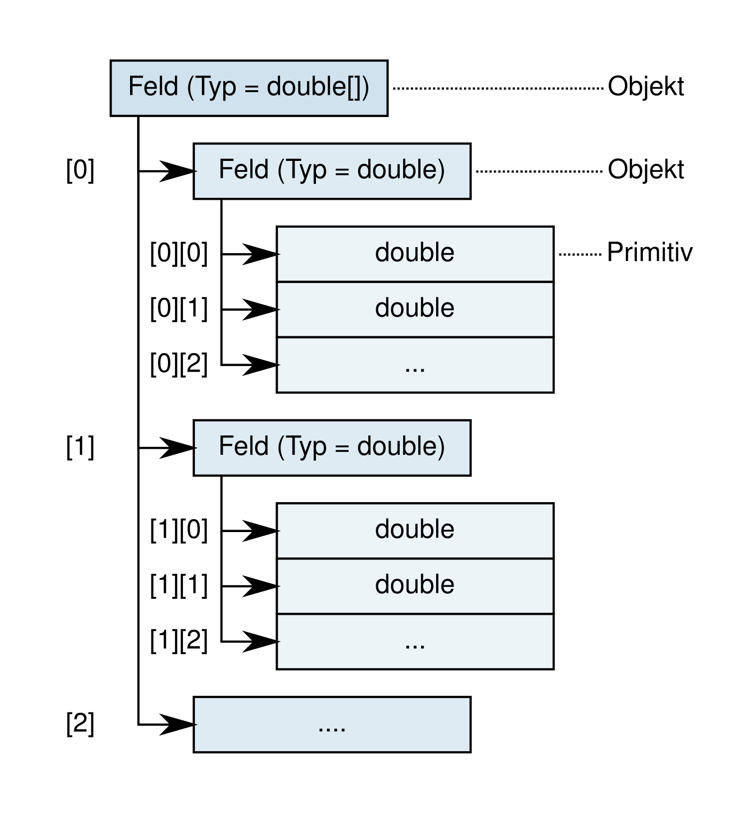 Construction of multidimsional arrays in Java.